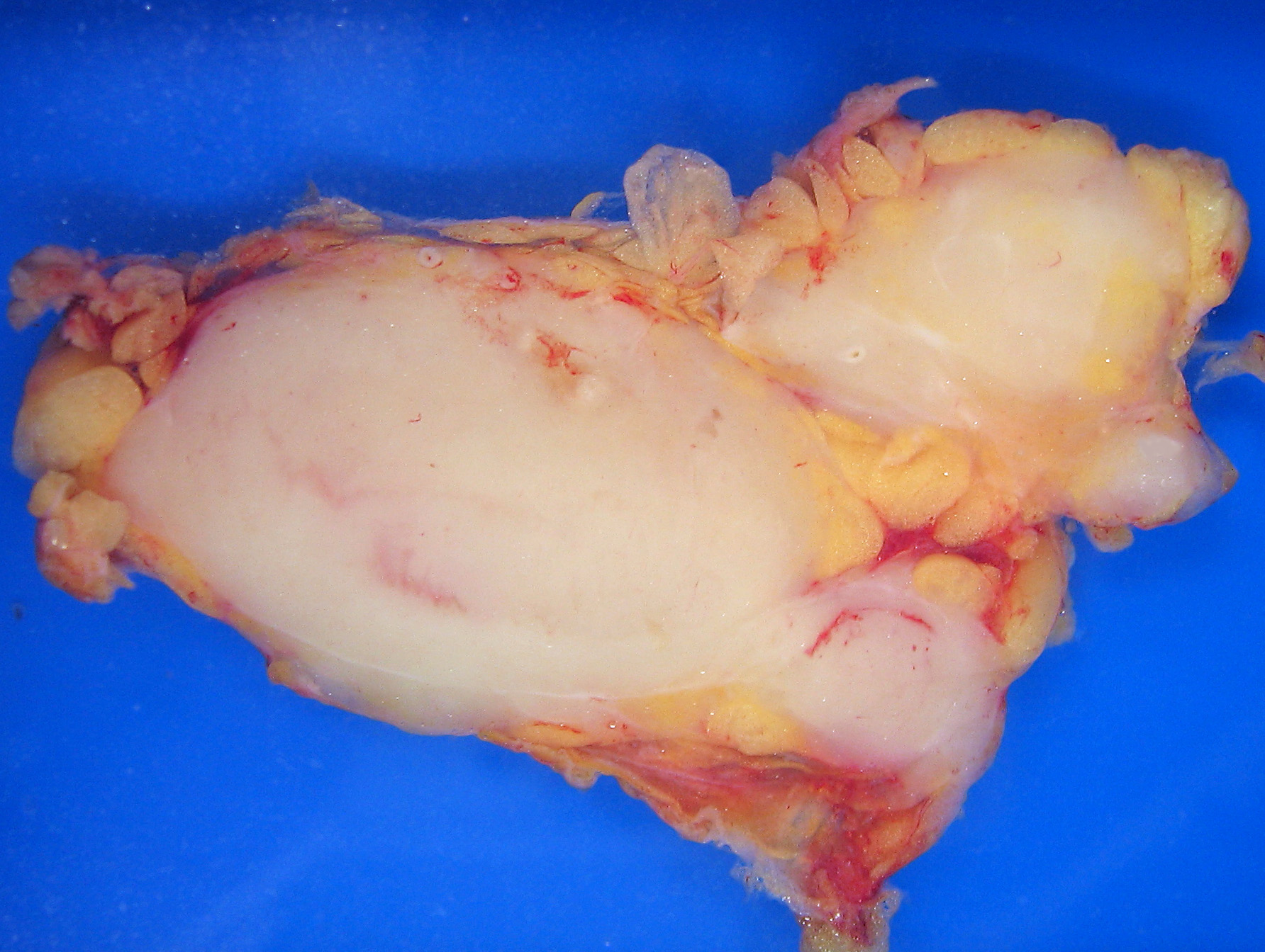 Macroscopic aspect of the cut surface of a human lymph node replaced by lymphoma. The node was about 6 x 4 cm (2.5" x 1.5"). The lymphoma is the nodules of pinkish tissue surrounded by yellowish fatty tissue. Upon histological examination, the node contained follicular lymphoma.